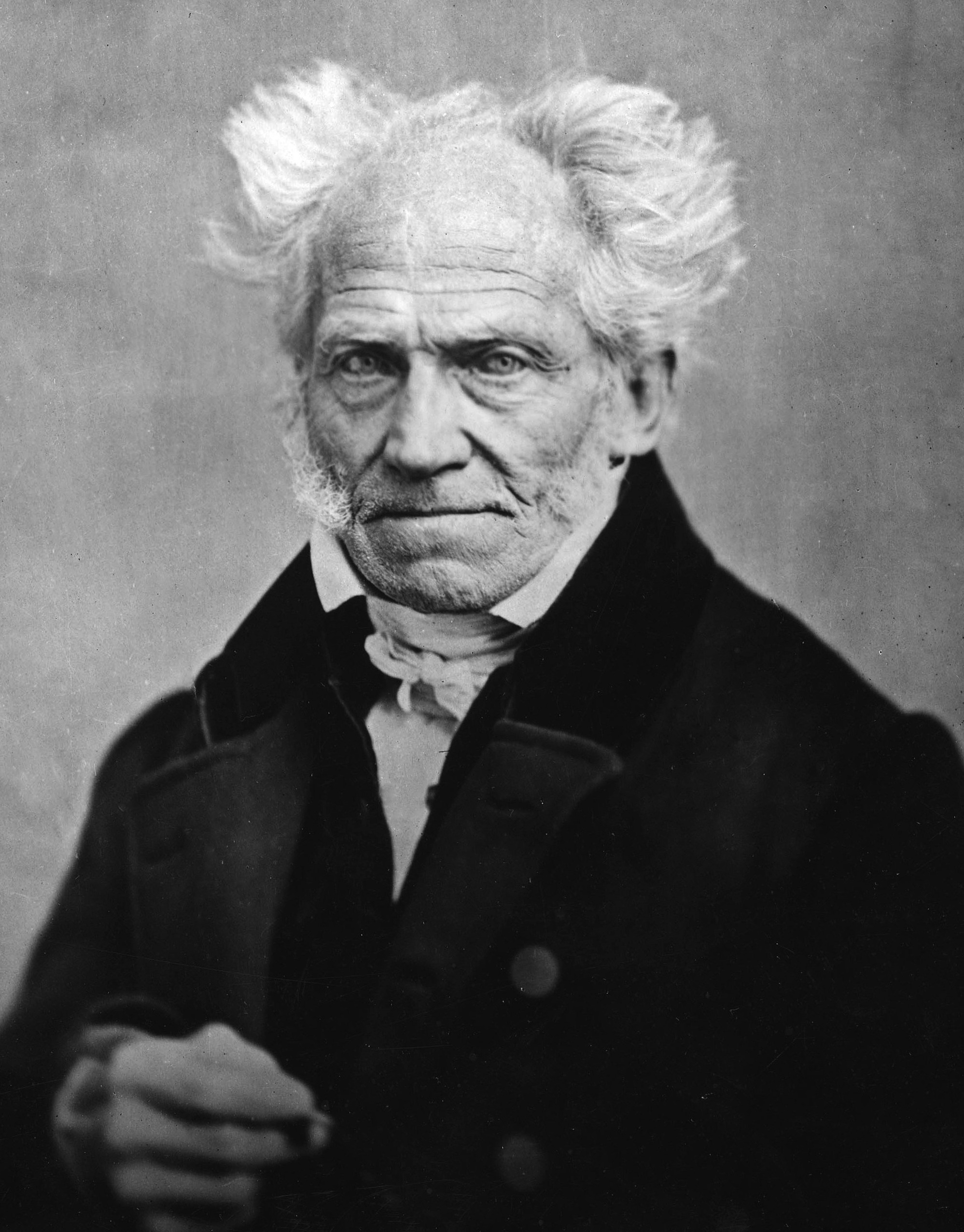 Portrait photograph of Arthur Schopenhauer